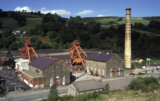 Rhondda Heritage Park. The former Lewis Merthyr Colliery at Trehafod. I visited this when it was working as a pit. The right-hand engine house contains a John Fowler steam winding engine.